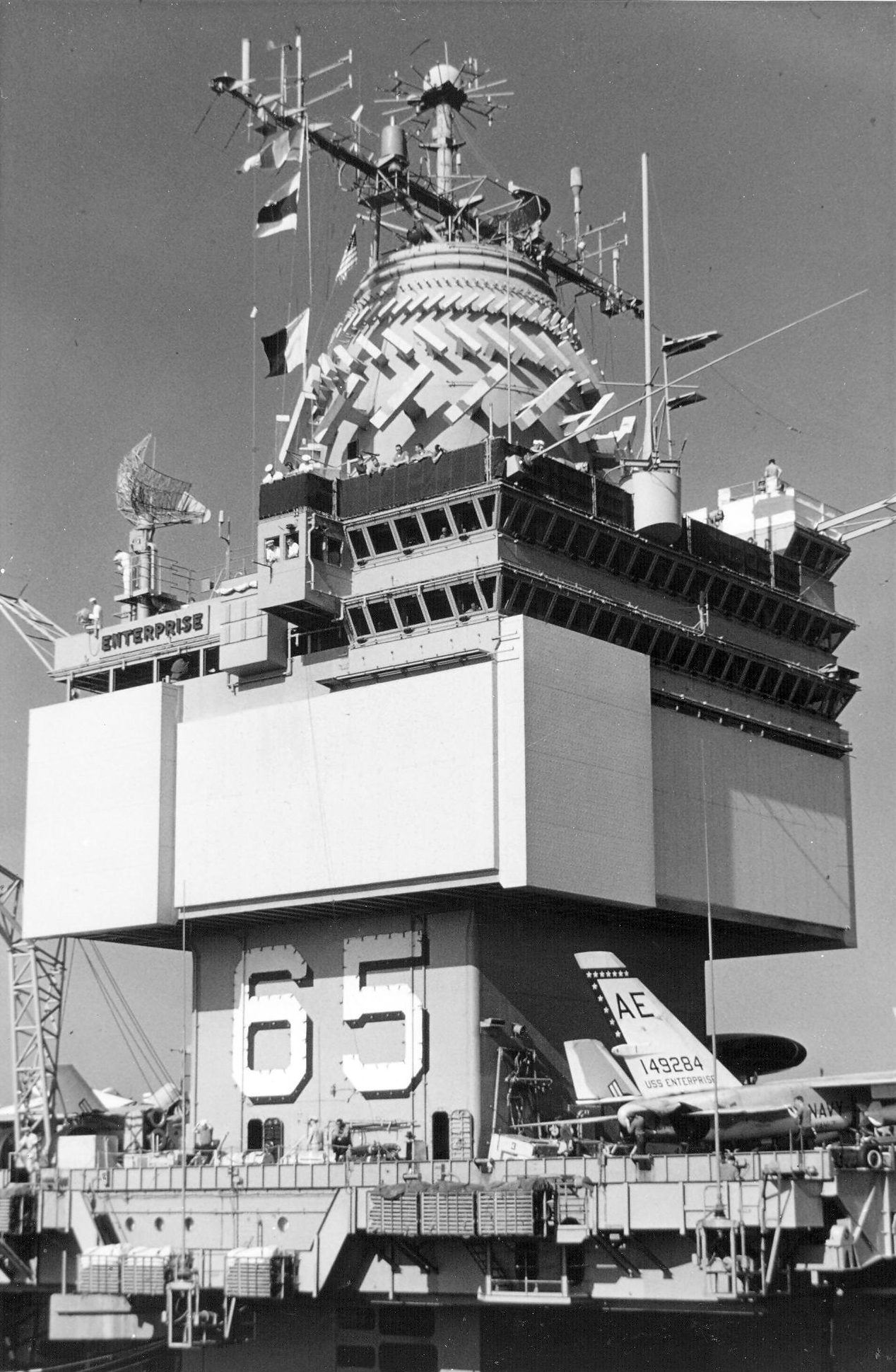 View of the island of the U.S. Navy aircraft carrier USS Enterprise (CVAN-65), in 1963-1964. Visible in the foreground is a North American A-5A Vigilante (BuNo 149284) of Heavy Attack Squadron 7 (VAH-7) "Peacemakers of the Fleet". VAH-7 was assigned to Attack Carrier Air Wing 6 (CVW-6) aboard the Enterprise for deployment to the Mediterranean Sea from 6 February to 4 September 1963, and for her world cruise from 8 February to 3 October 1964.